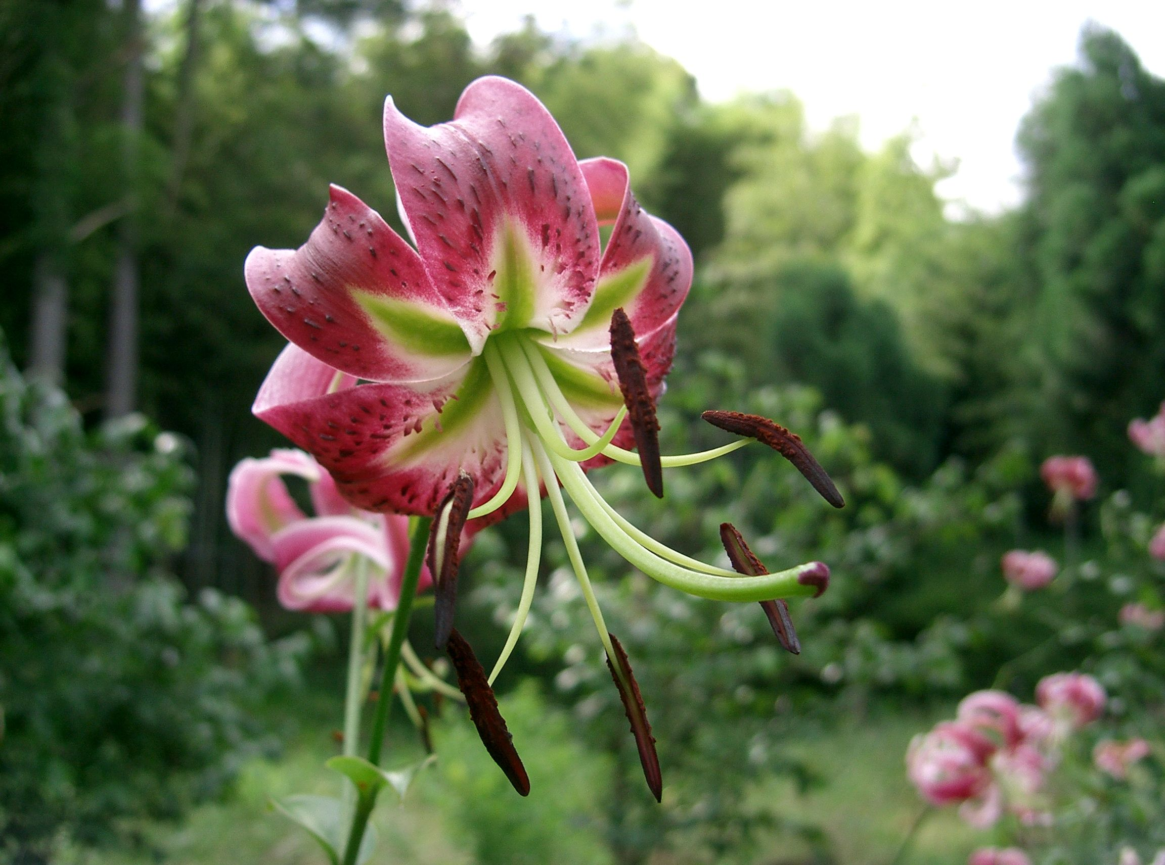 Lilium 'Black Beauty'